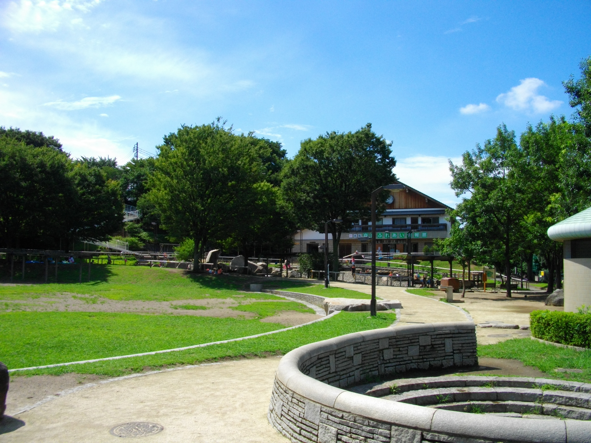 Shimizuzaka Park